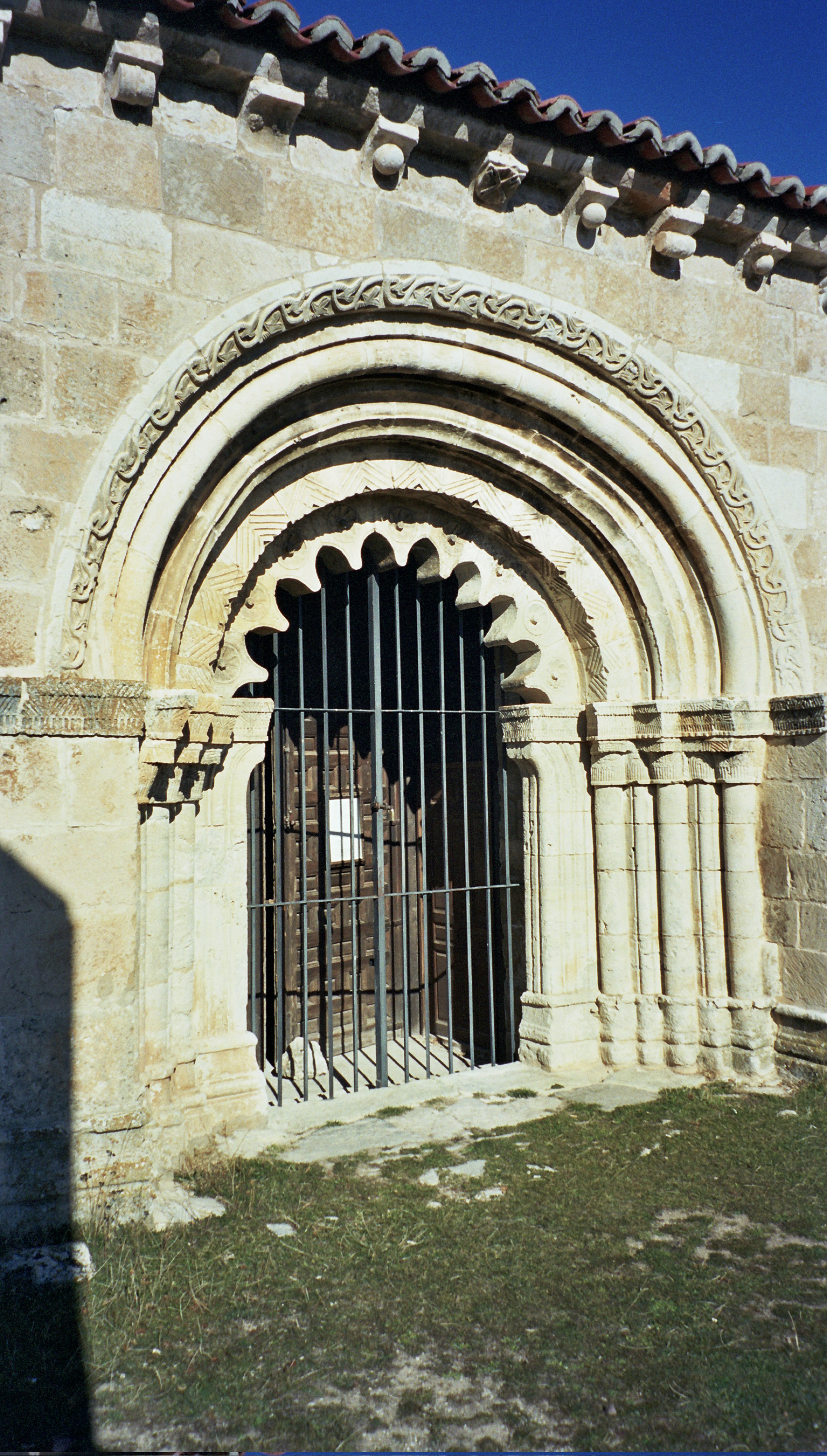 Romanesque church at Villacadima, Guadalajara, Spain